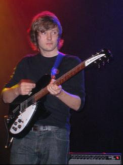 Photo of Tom Rowley